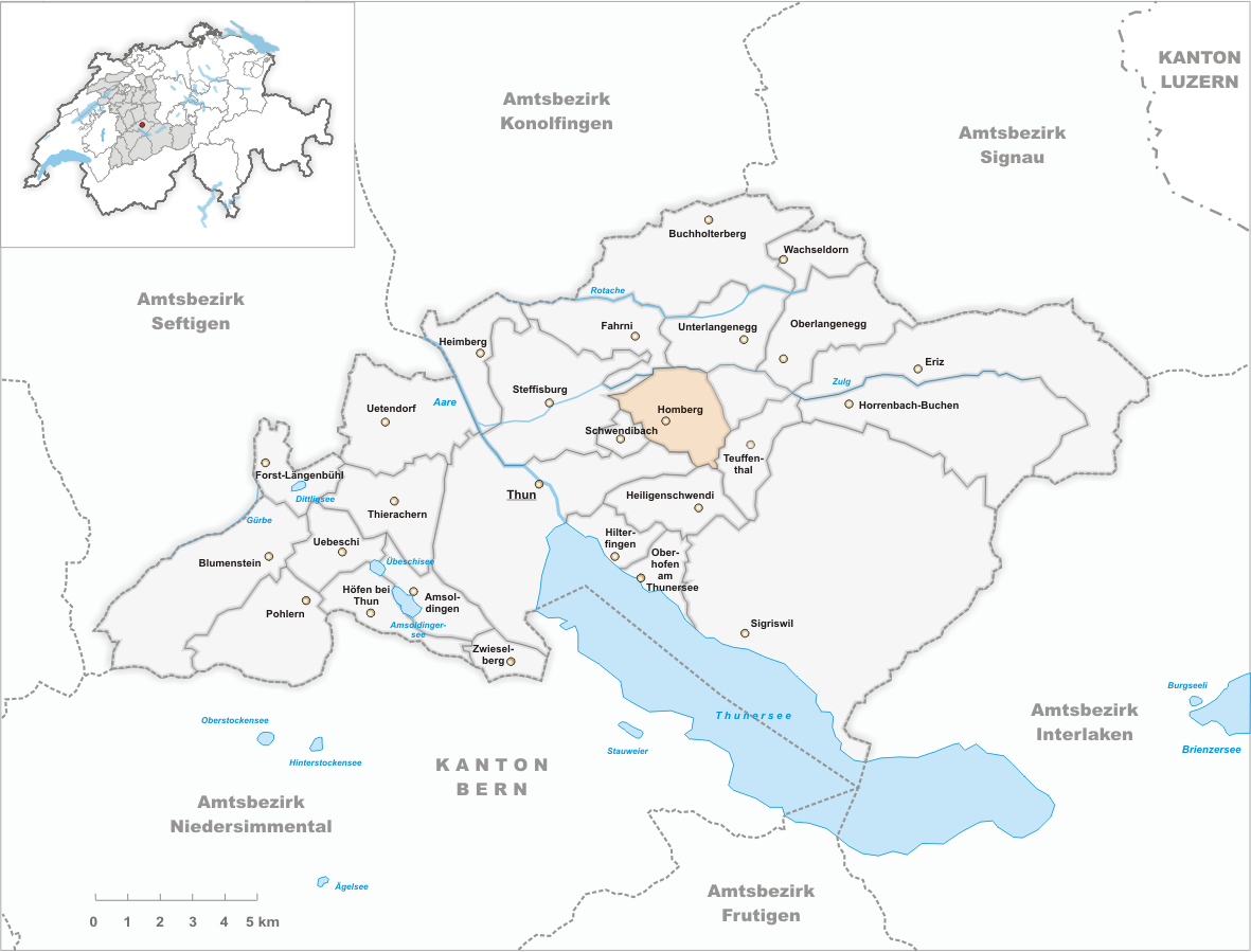 Municipality Homberg